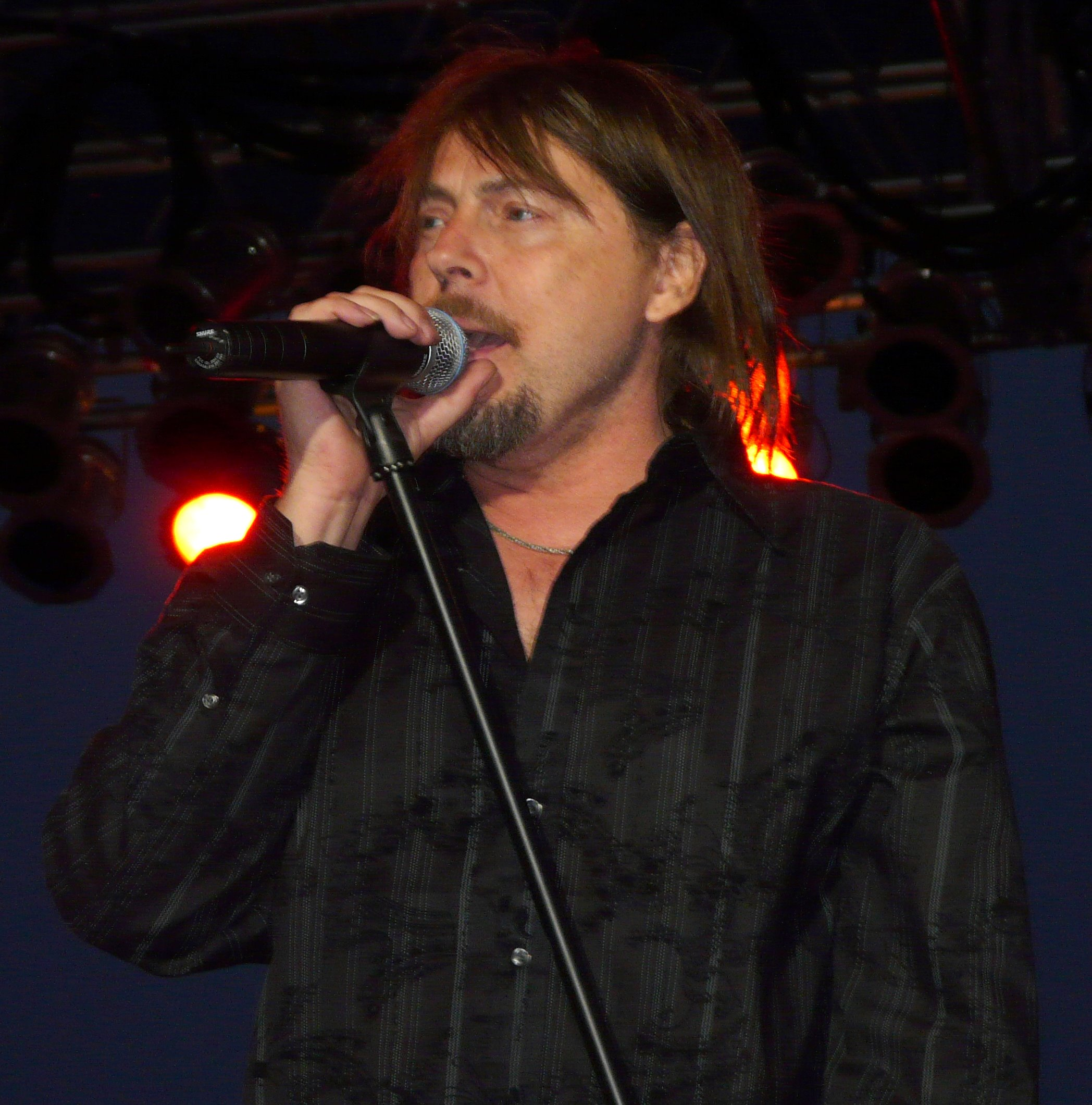 DON DOKKEN Taken by Matt Becker Performing with DOKKEN on June 21, 2008 at the Red River Valley Fair in West Fargo, ND